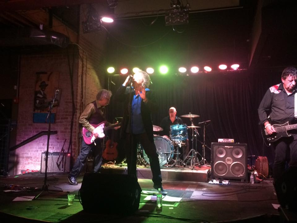 The Furys live in Fresno June 2017